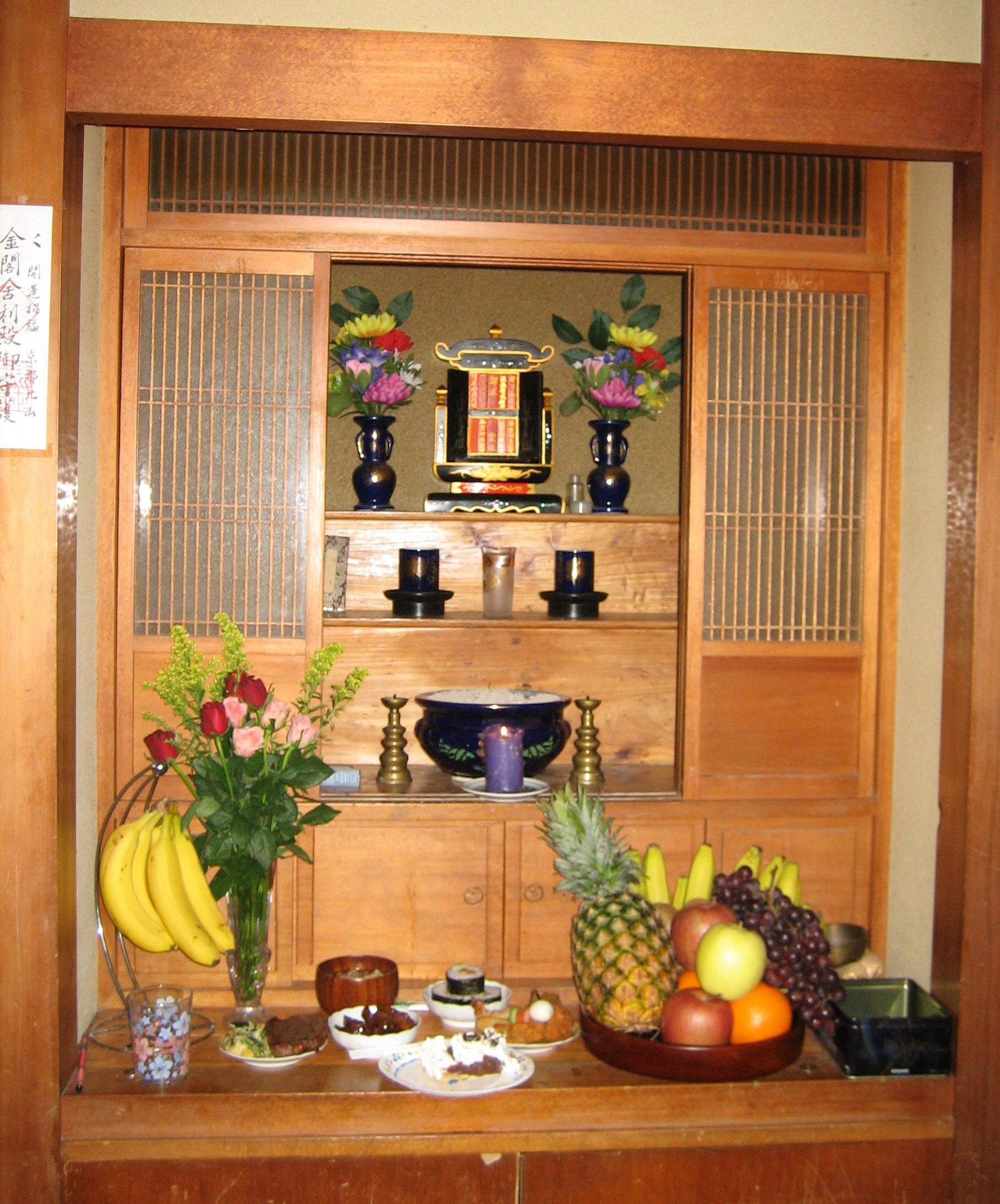 A butsudan from Naha, Okinawa, Japan (see Ryukyuan religion). Top row: Tiles with decease family member's names. Each vertical tile pair is one generation. Generations are from right to left, oldest to newest, husband on top row, wife on bottom row. The front of the tile is inscribed with their death name, the back of the tile is inscribed with their life name. Second row from top: Water and tea offering to the deceased family members. A new offering is made daily. When a woman wakes, she first makes an offering to the Hinokan (god of the hearth), then makes an offering to the Butsudan, and then goes on about her day. Third row from top: Incense bowl and candles. Incense is burned along with the water and tea offering in the morning. In some families incense is also burned when they arrive home after work. In the Okinawan religion there are three generational eras that are worshiped and the color of the ceramic ware indicate which era. Blue with gold trim is the current generation era and represents the previous 1 to 12 generations. Light green ceramic ware is the middle generation era and represents the previous 13 to 25 generations. White represents the ancients, previous 26+ generations, and the Gods. This altar has less than 12 generations represented, so only blue ceramic ware is used. Bottom row: Food offerings. To the right is the fruit offering. This is always present. Bananas, representing the male, and tangerines, representing the female, are always present in the fruit offering. This photo was taken at a birthday celebration and the ancestors were included in the celebration by presenting them with dinner and birthday cake.